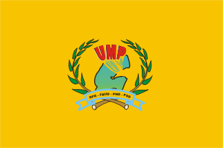 UMP flag